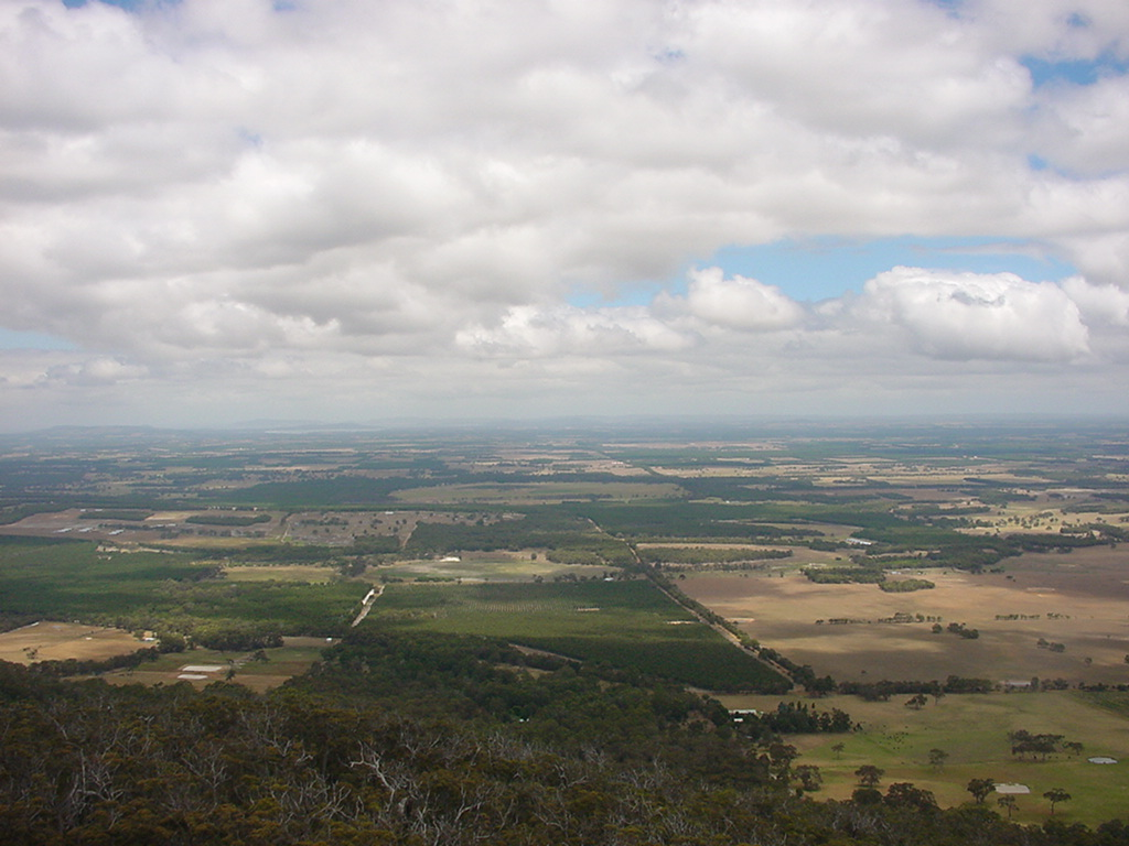 View from Castle Rock towards Albany, Western Australia. Personally taken by the uploader in Jan 2002.